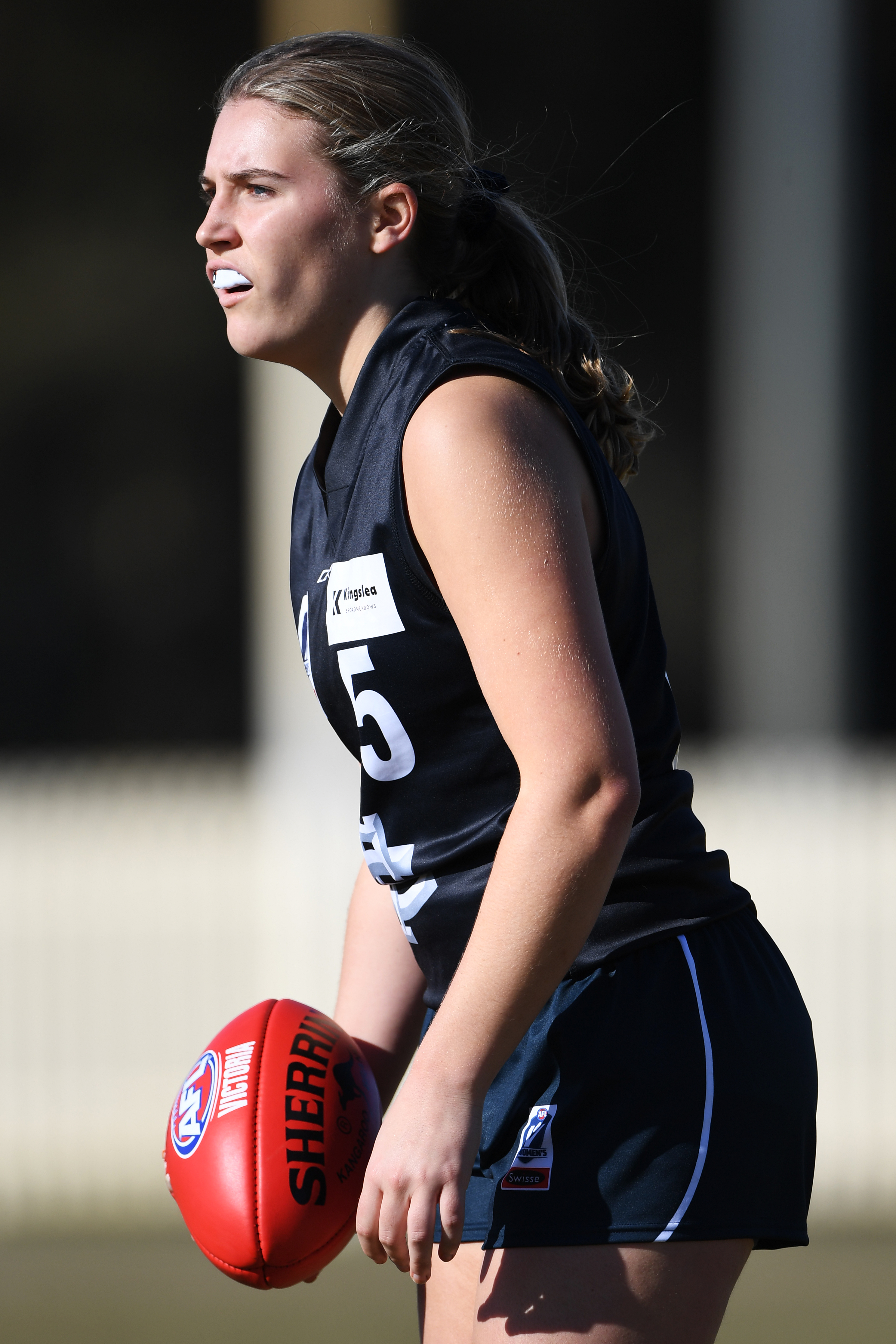 Abbie McKay of Carlton during the 2019 VFLW round 5 match between Carlton and NT Thunder at La Trobe University on Saturday, 8 June 2019 in Melbourne, Victoria.